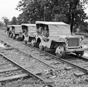 Road-rail Jeeps, used to transport supplies, on the tracks between Myitkyina and Mogaung, December 1944.